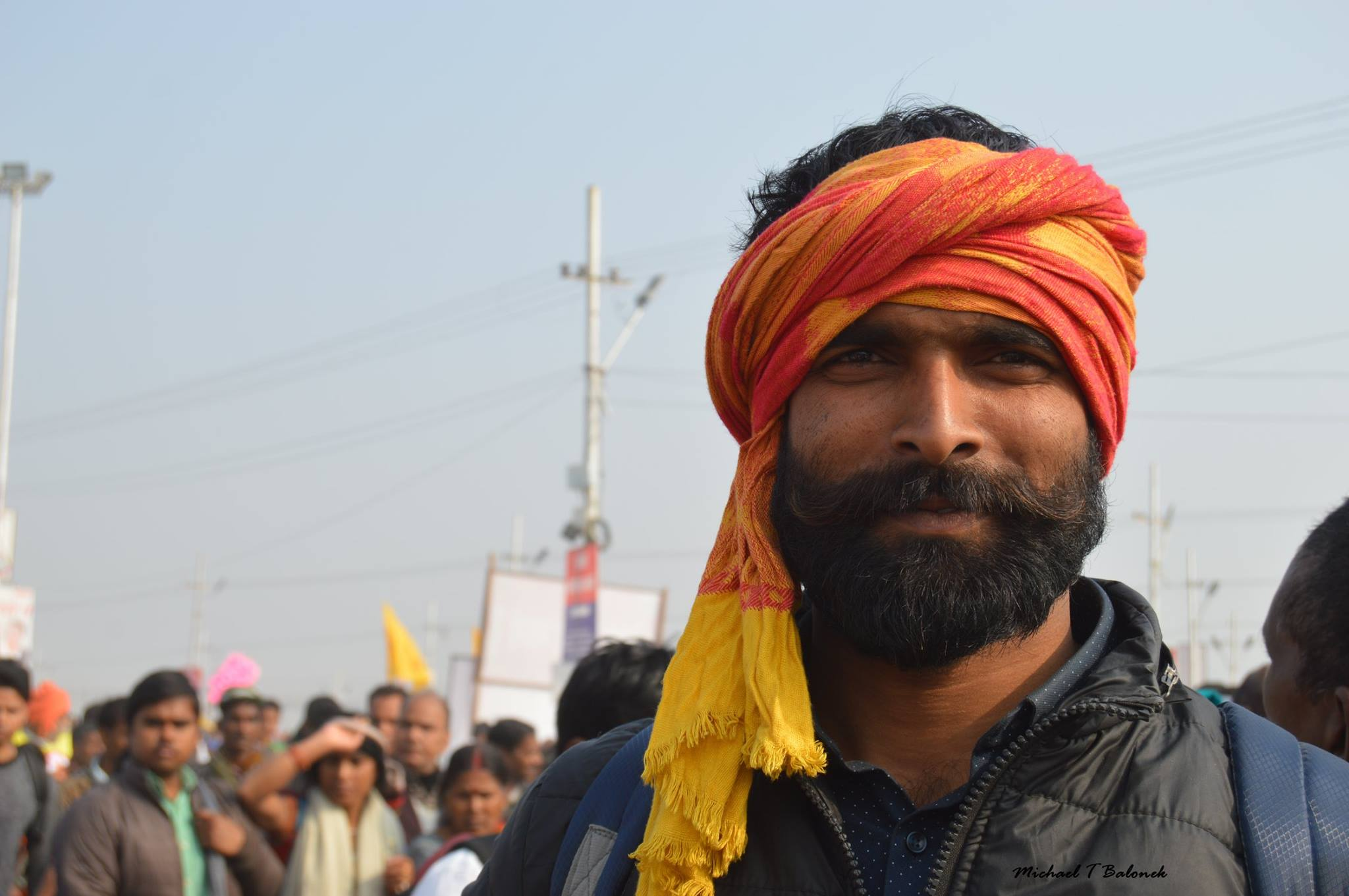 Portrait from the 2019 Prayagraj Kumbh Mela This photo has been taken in the country: India